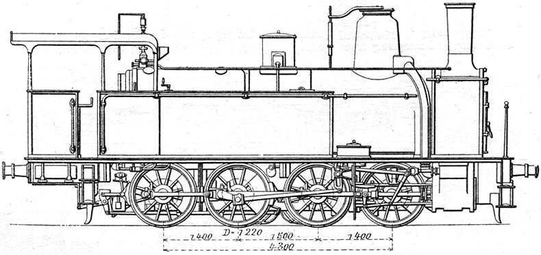 Drawing of steam locomotive 040 of the Grand Central Belge.